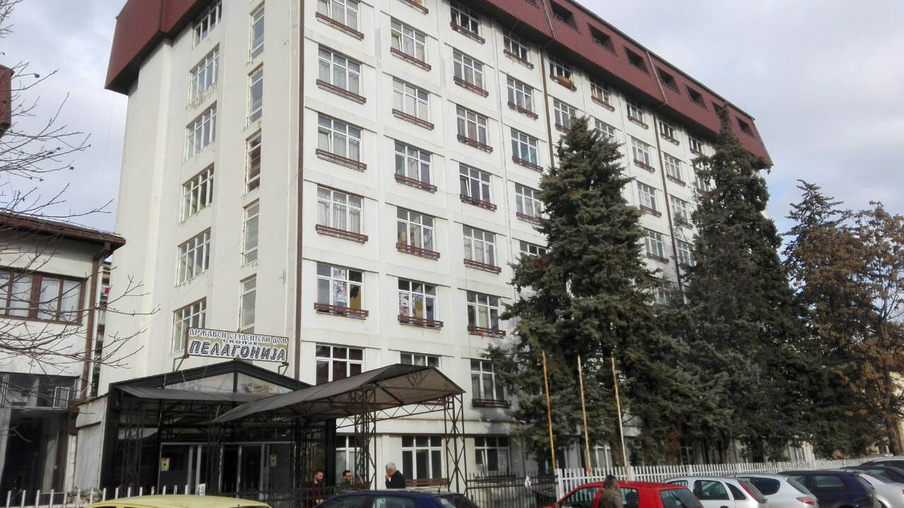 Pelagonija dormitory in Skopje